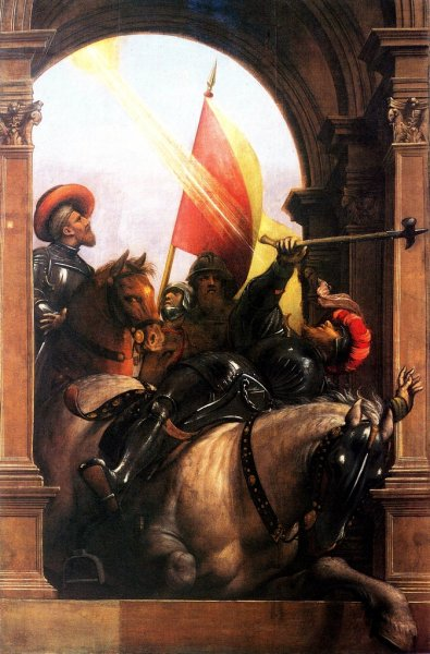 Il Pordenone - Conversione di Saulo - Duomo di Spilimbergo tempera su tela - anta d'organo 448 x 224 cm